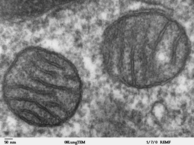 Transmission electron microscope image of a thin section cut through an area of mammalian lung tissue. The high magnification image shows a mitochondria. JEOL 100CX TEM